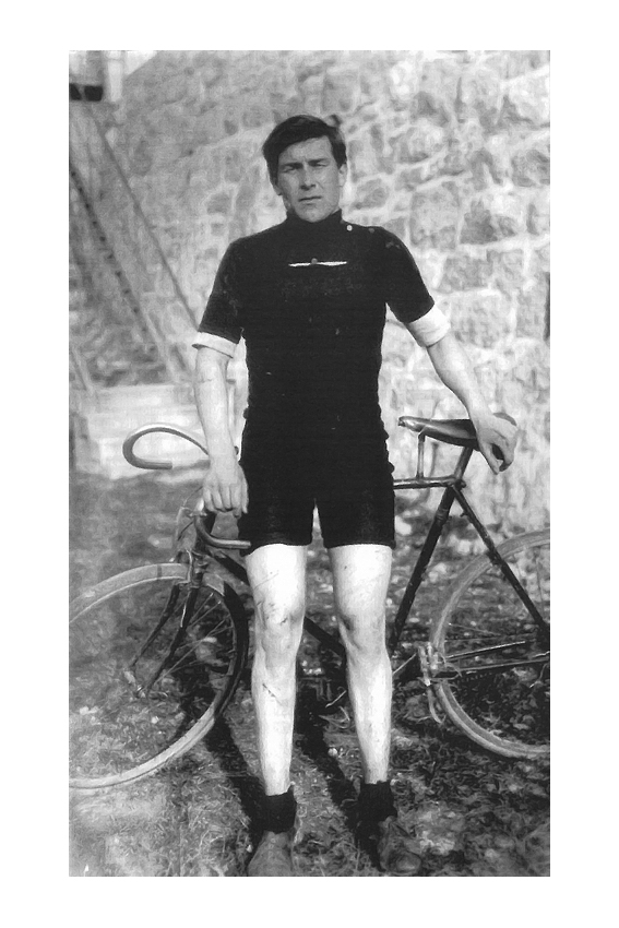 Ernest Strobino, winner of Swiss Champioship of cyclo-cross in 1925 and in 1926.